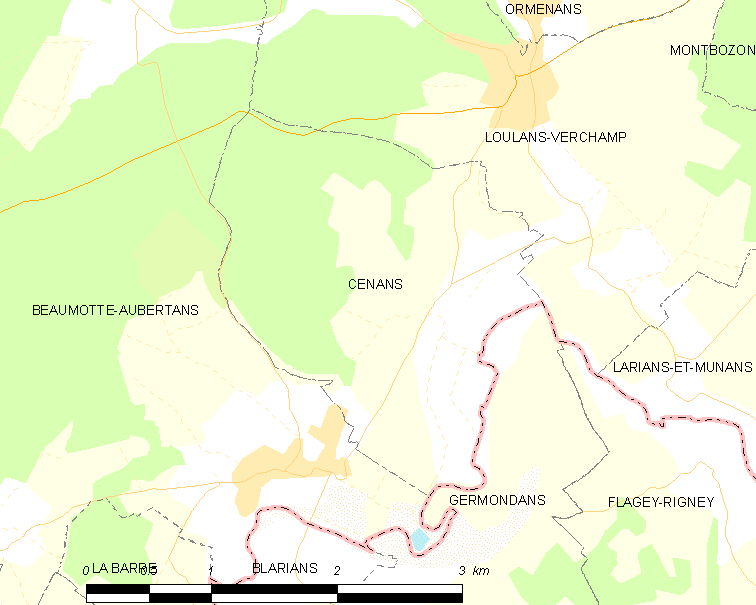 Map of French municipality